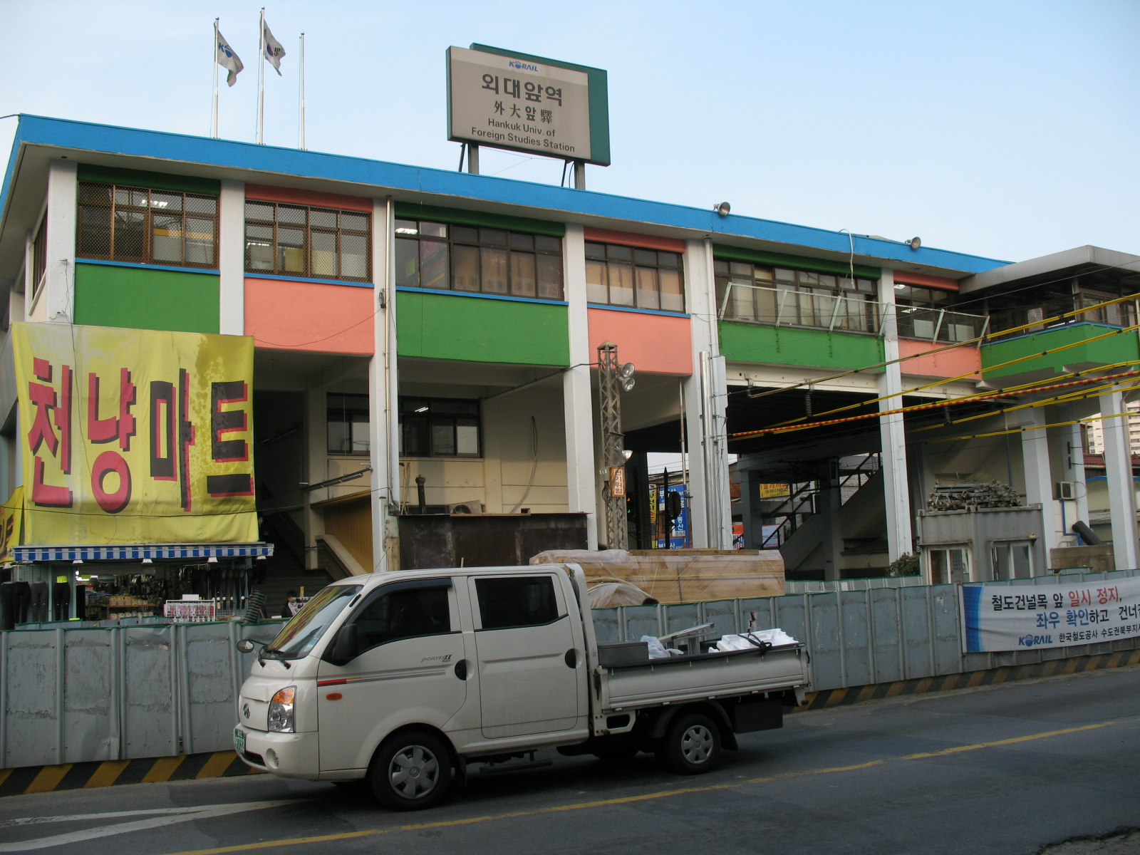 Hankuk University of Foreign Studies Station.